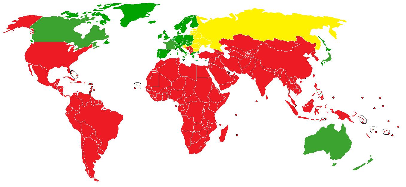 Overview map Of States Committed by the Kyoto Protocol. Green States = Annex 1 parners fully committed Yellow States = Committed within substantial freedom as to their commitments (So-called Countries with Economies in Transition (EIT) They are a segment of the Annex 1 group.) Red states = are not committed by the Kyoto Protokol (These are either states that have not signed or non-annex states in the protocol)